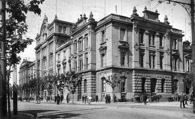 Side view of the Once de Septiembre railway station in Buenos Aires.